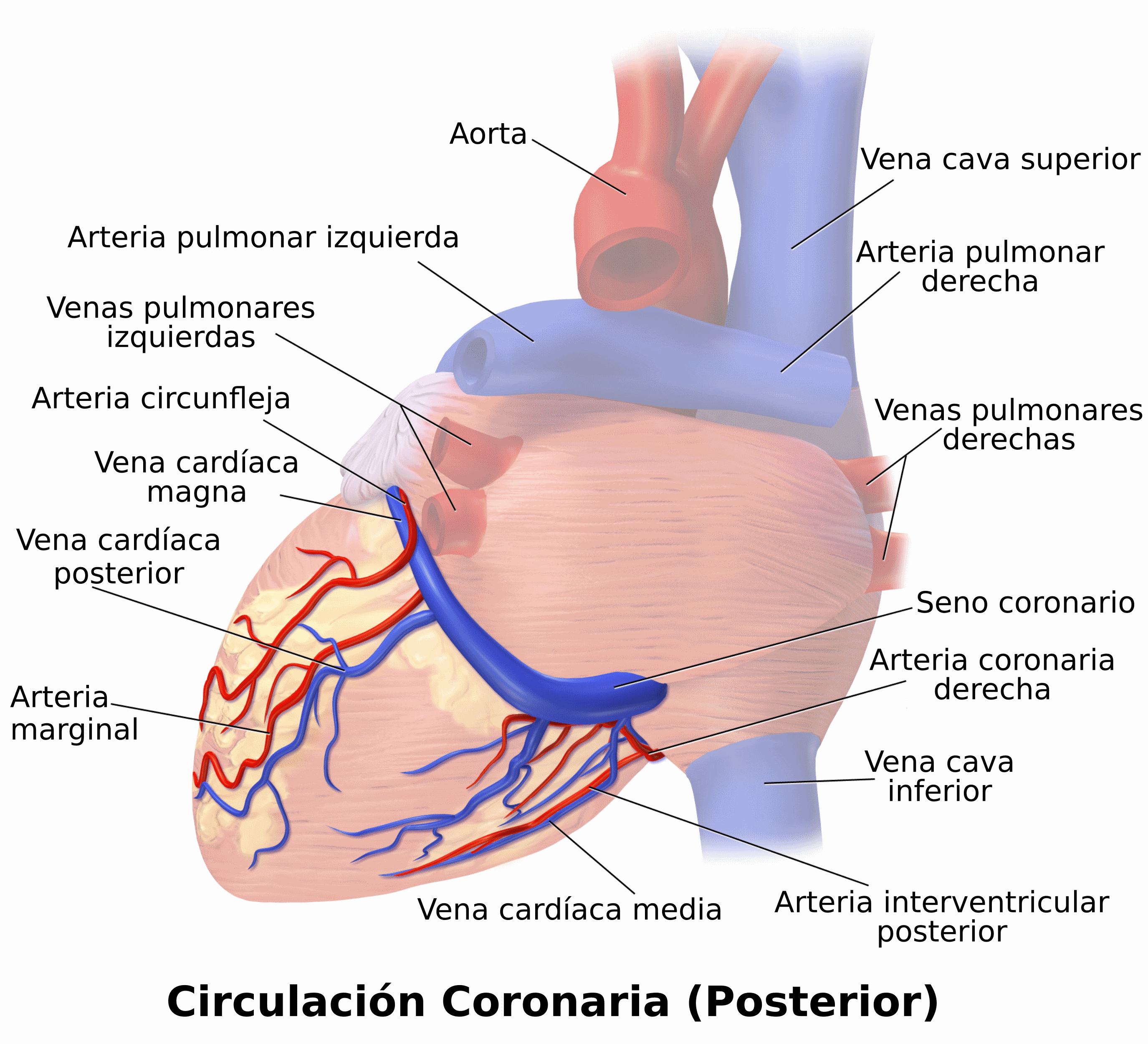 Coronary Circulation (Posterior). See a related animation of this medical topic.